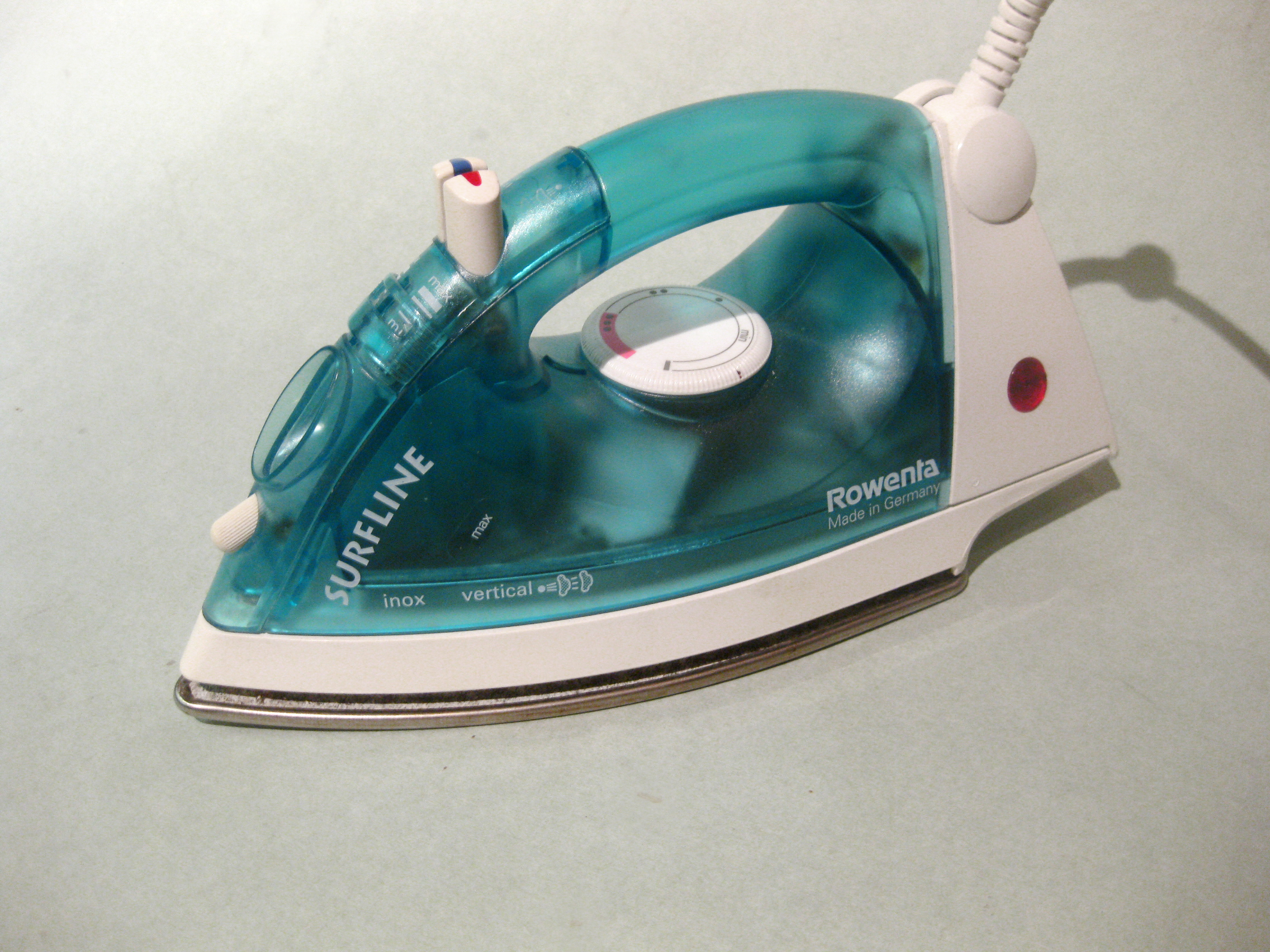 "Rowenta Surfline" by Rowenta design center Offenbach